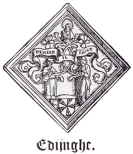 Blazoen en leuze "Penser il fault" van de rederijkskamer Sint-Anna van Edingen (Edijnghe) in Henegouwen.